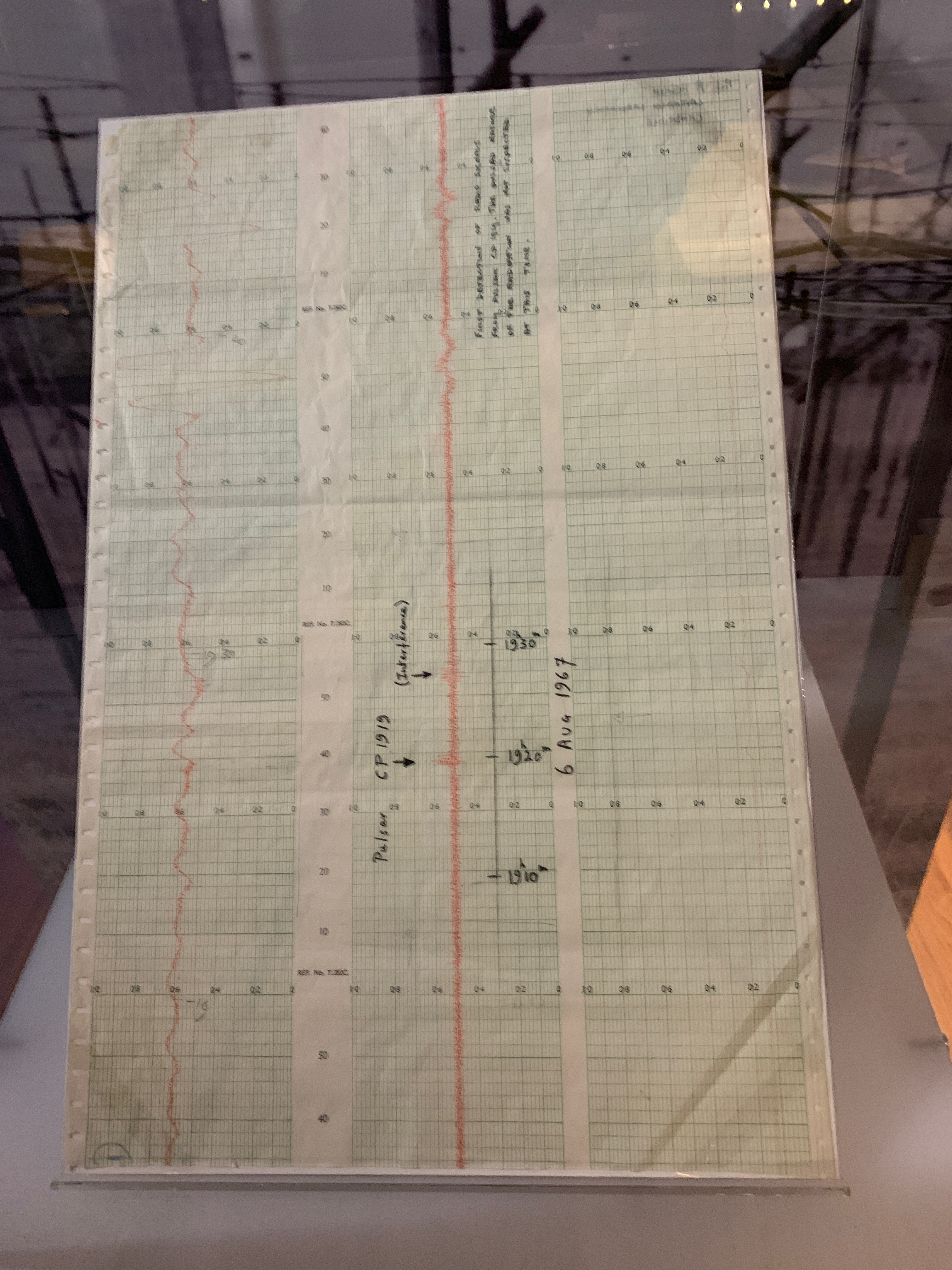 The chart examined by Jocelyn Burnell in August 1967 with data from the 4 Acre Array radio telescope, showing the trace of the first identified pulsar, subsequently designated PSR B1919+21